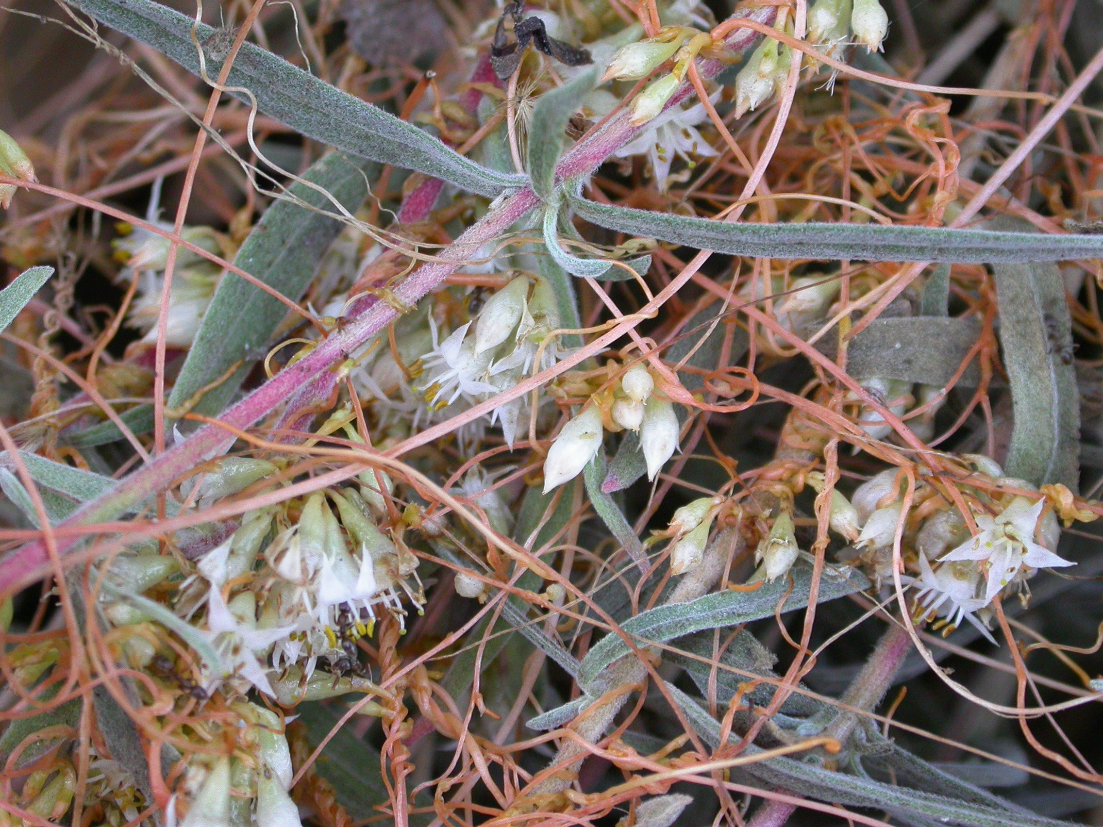 Photographed at BioTrek. Contributed and © by Curtis Clark. Licensed as noted.